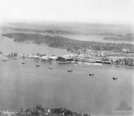 AWM Caption: RATHMINES, NEW SOUTH WALES, 1945. AN AERIAL VIEW OF RAAF RATHMINES SHOWING THE HANGARS ON SHORE WITH CATALINA AIRCRAFT MOORED IN THE LAKE.